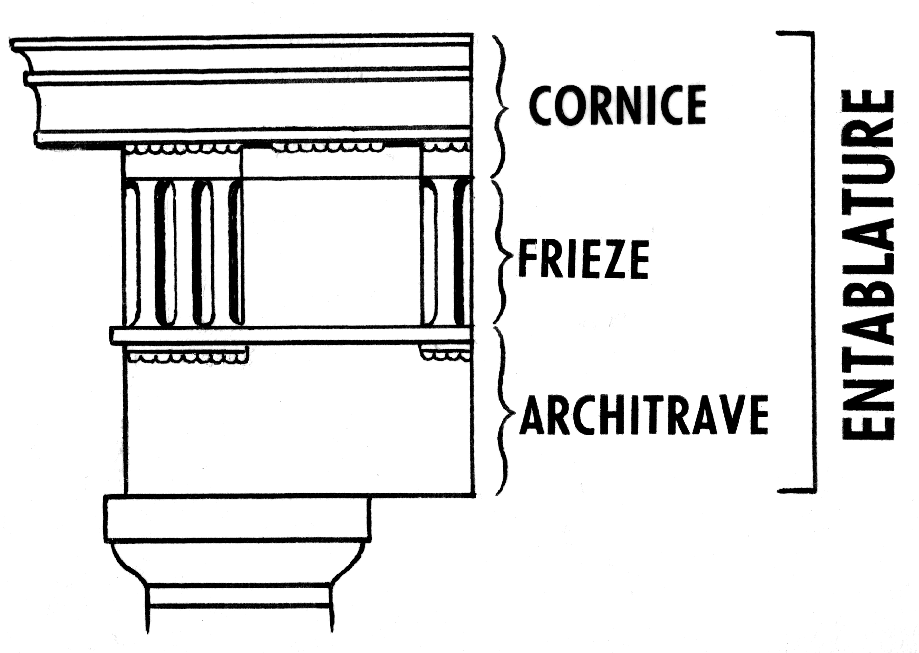 Diagram of Entablature, part of column.